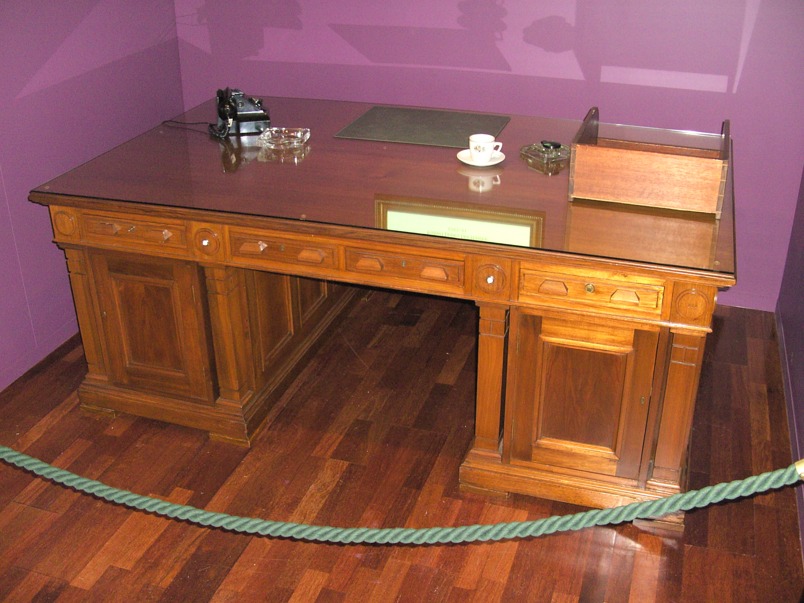 Desk of former Prime Ministers of Australia, on show in the Museum of Australian Democracy, Old Parliament House, Canberra. Used by Prime Ministers from Stanley Bruce (from 1927) to Bob Hawke (1988), then in the new Parliament House by John Howard (1996-2007). The desk was designed for OPH by the building's designer, John Smith Murdoch.